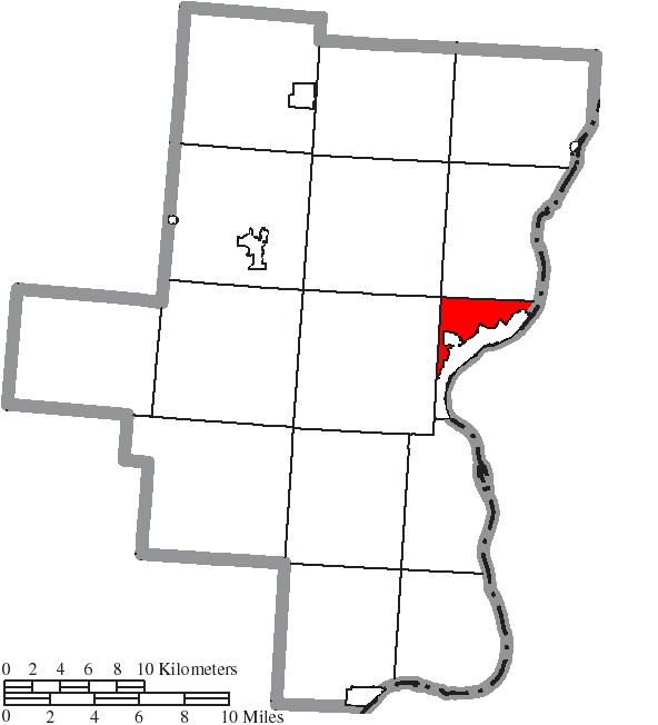 Map of the municipal and township boundaries of Gallia County, Ohio, United States, as of the 2000 census, with the location of Gallipolis Township highlighted. Township borders are shown only in unincorporated areas in order to differentiate incorporated and unincorporated areas more clearly.